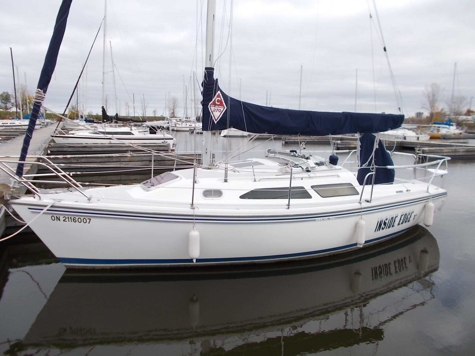 Catalina 270 Sailboat Inside Edge at Nepean Sailing Club, Ottawa, Ontario, Canada.